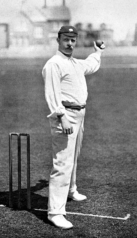 "Peel in the act of delivery."